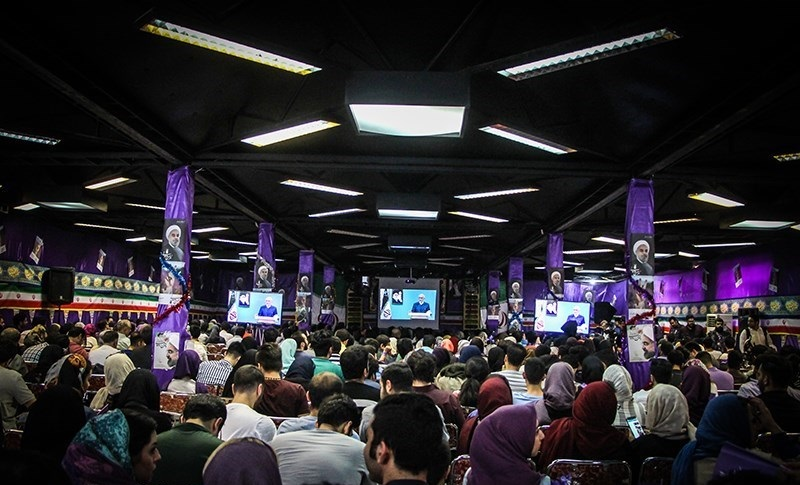 Iranian presidential election debates, 2017